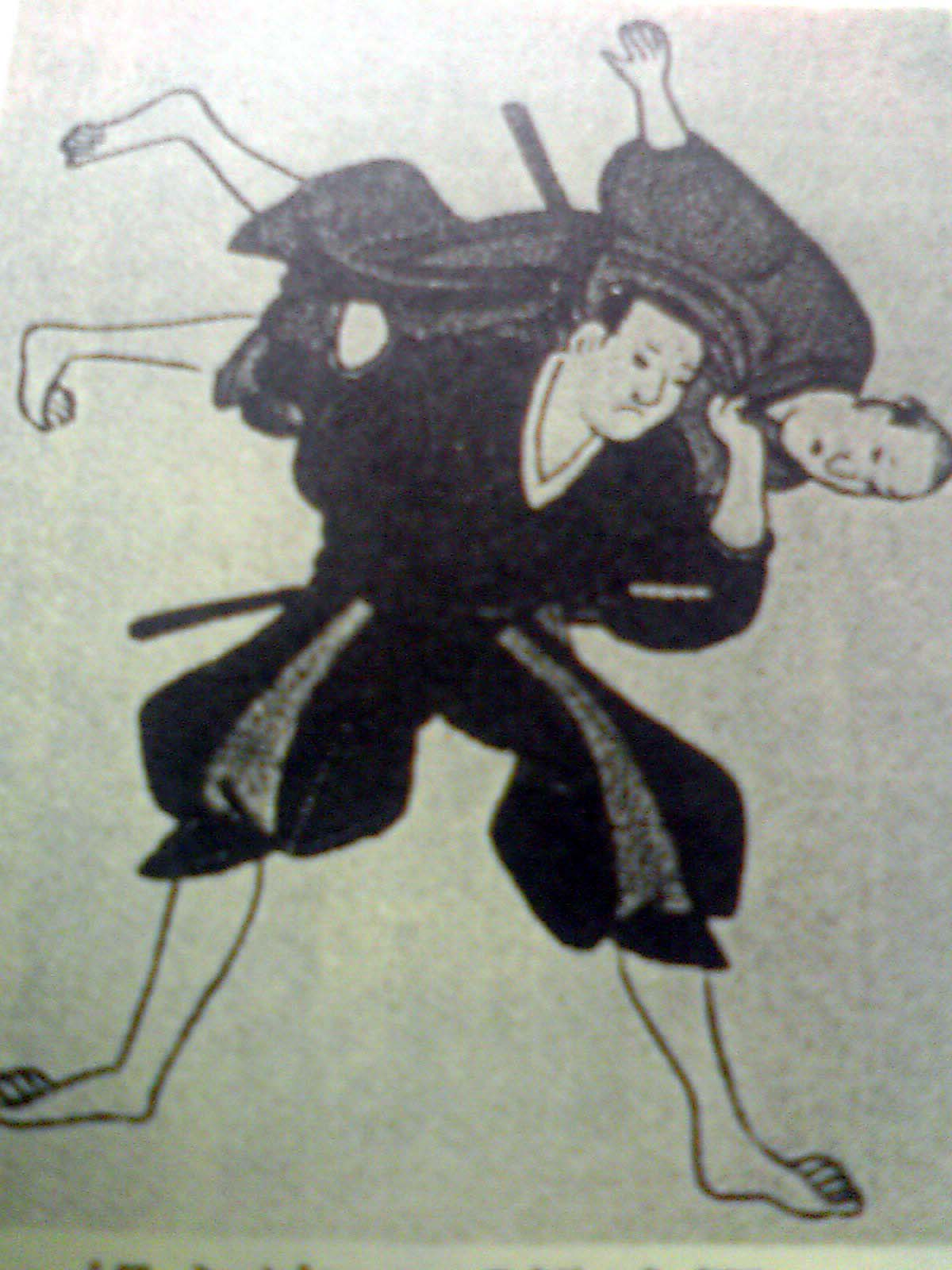 Kata guruma